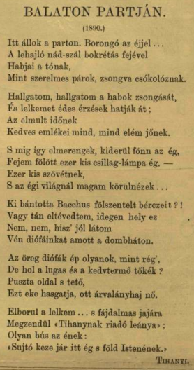 Poem of Lampérth Géza